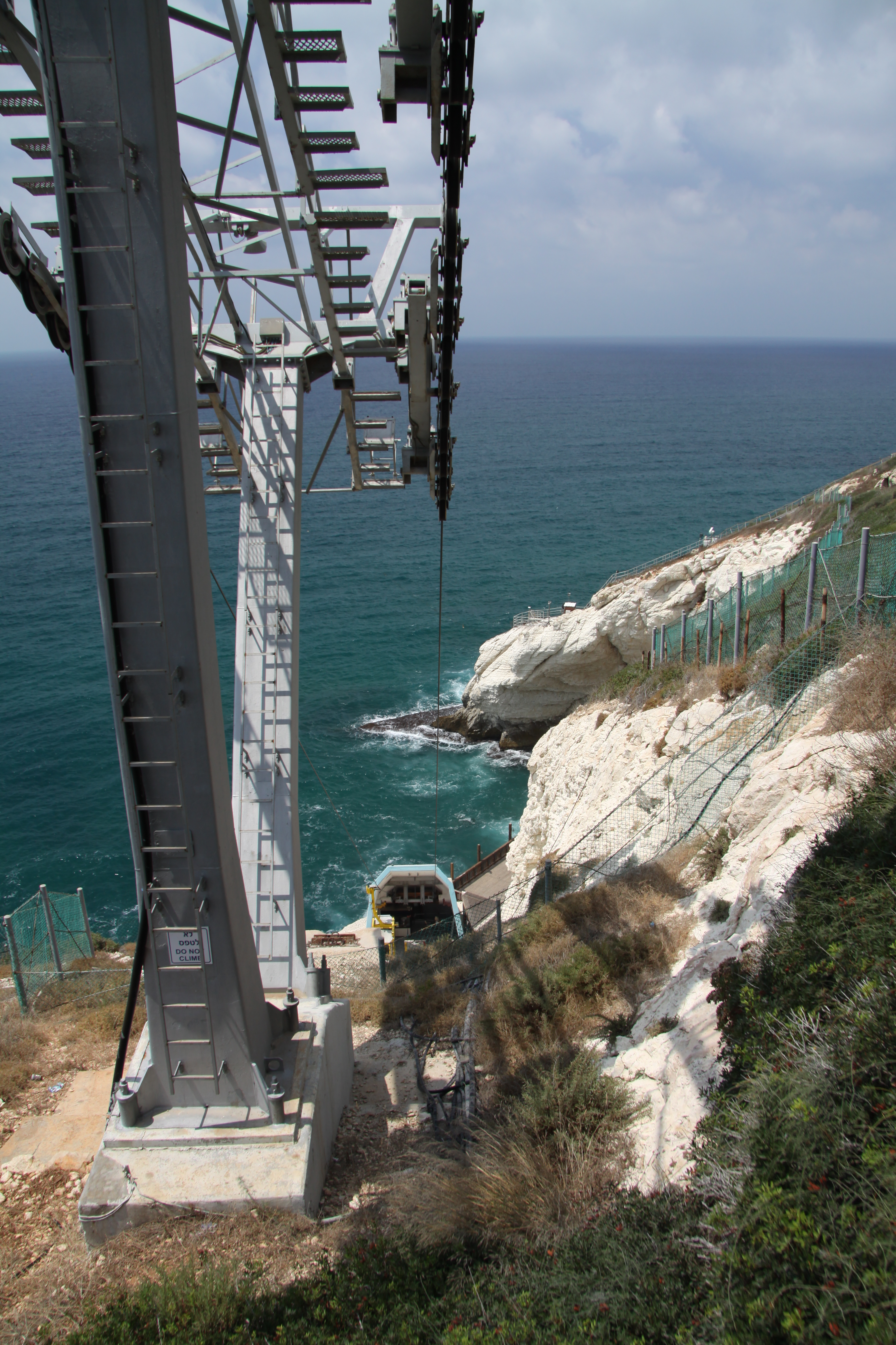 Cable car to nature reserve Rosh Hanikra near Lebanon border, Israel